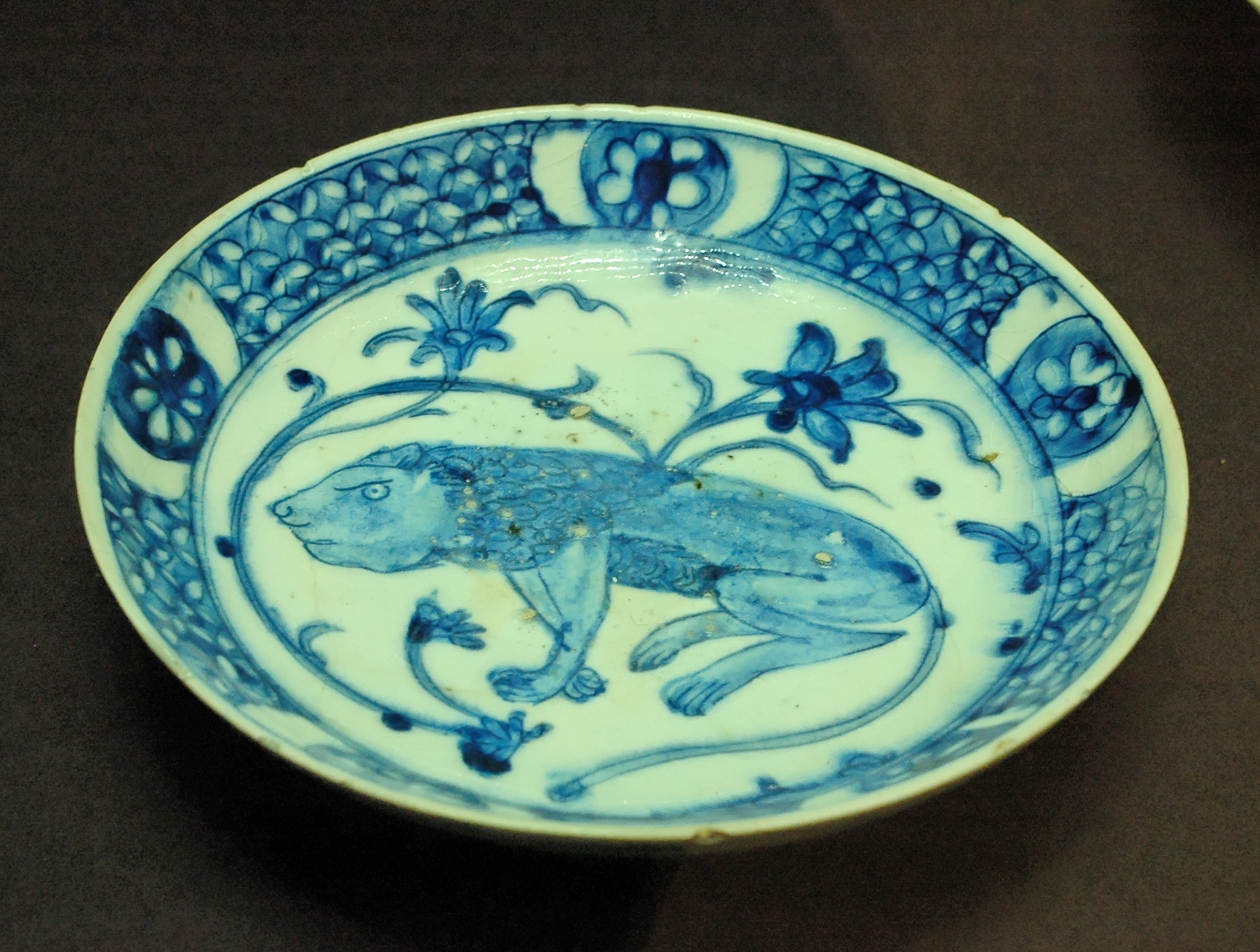 Cup with lion.